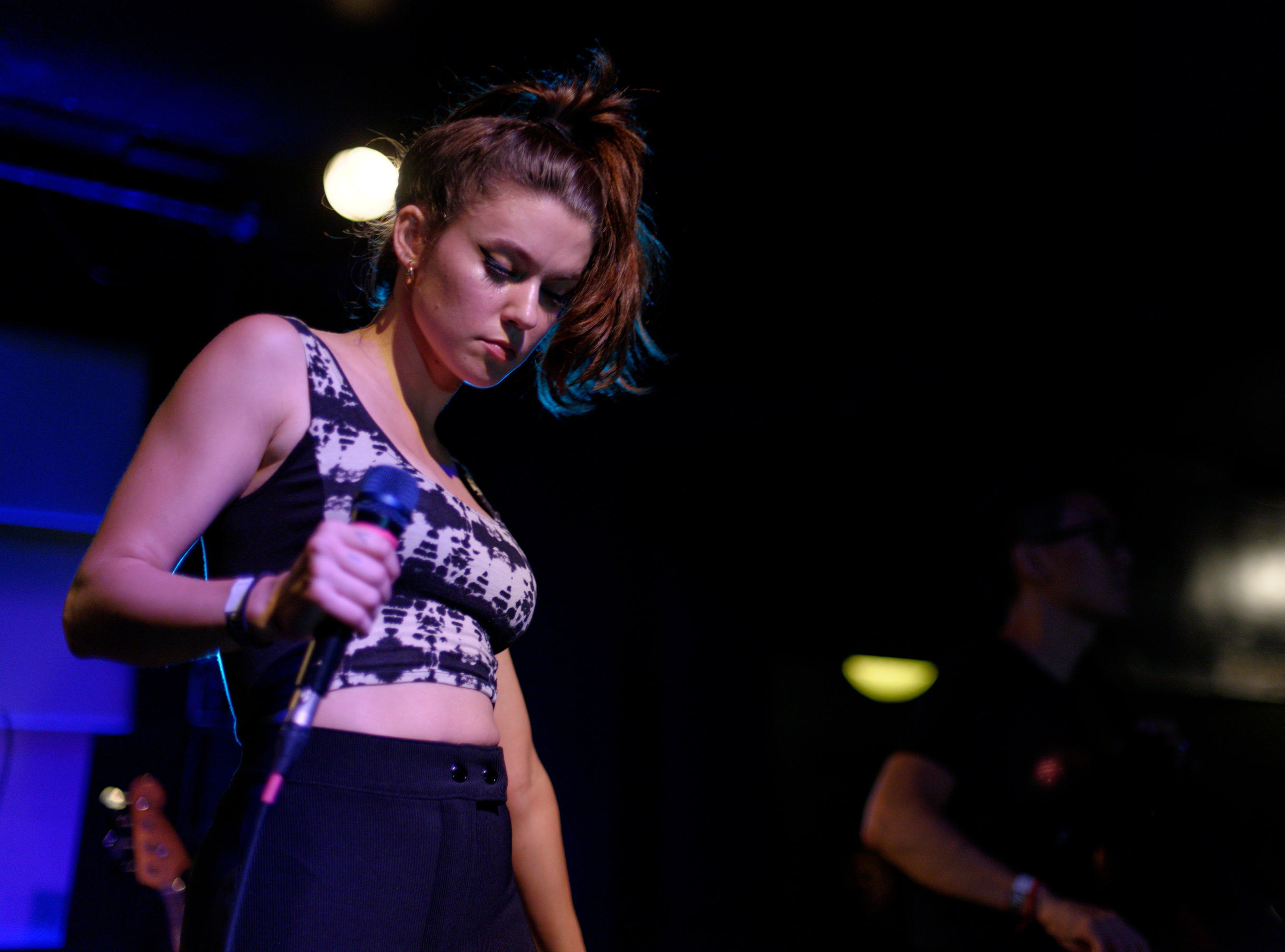 Meg Myers performing live at The Echo in Los Angeles California on Thursday September 18th, 2014.